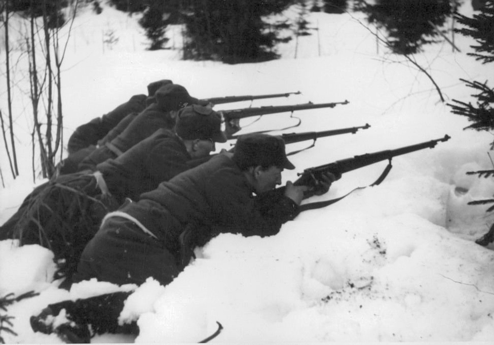 Norwegian soldiers in the country outside Steinkjer just before the retrect on the allies.